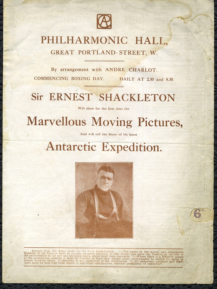 Programme for a screening at the Philharmonic Hall, Great Portland Street where Sir Ernest Shackleton appeared in person and showed film of his Imperial Trans-Antarctic Expedition.